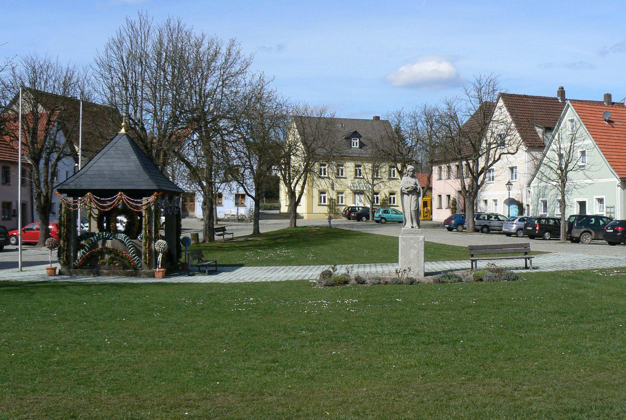 view of Hollfeld, Germany